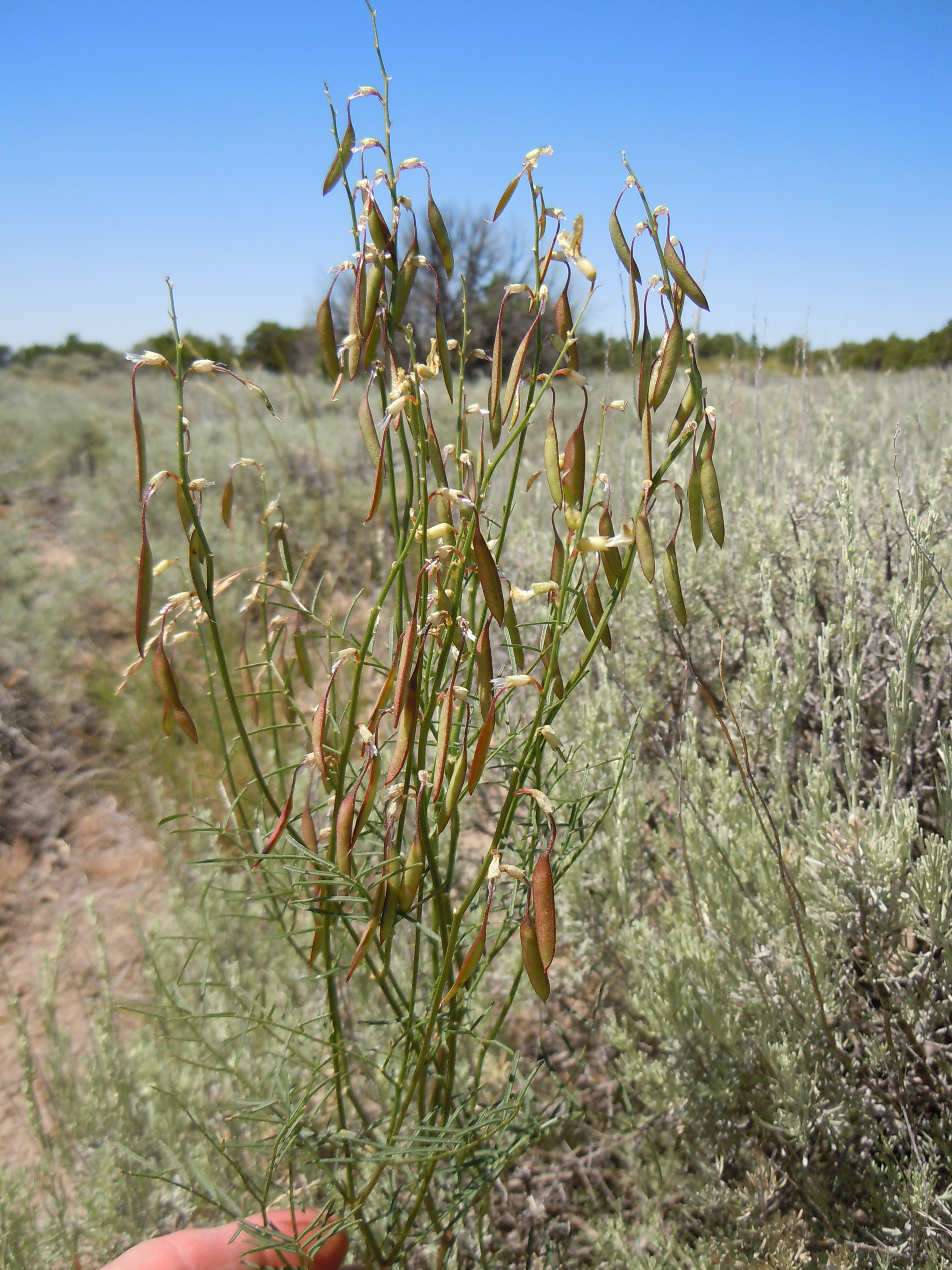 Astragalus filipes is common through the lowland and upland sagebrush steppe of the upper Snake River Plains.